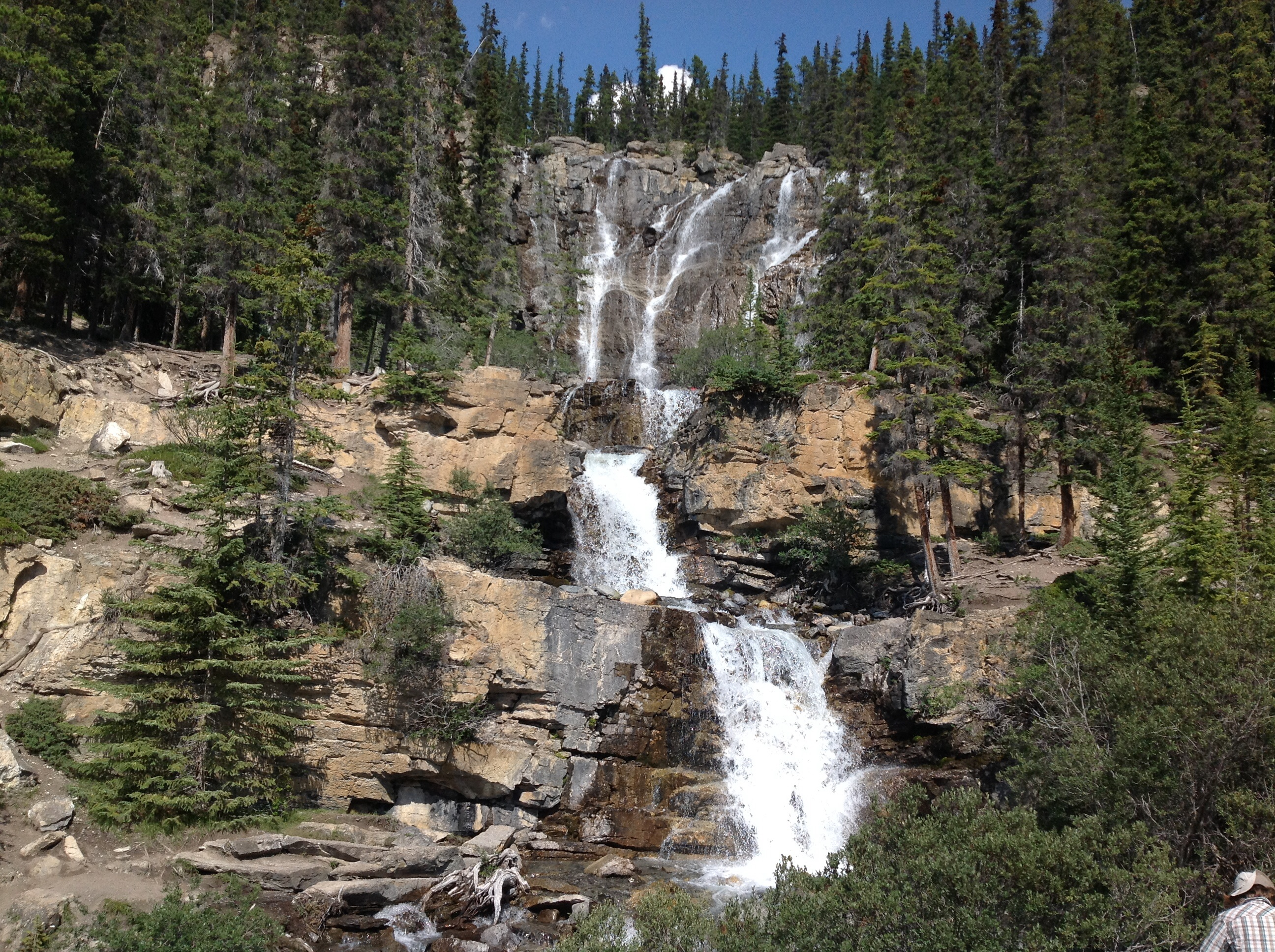 Tangle Creek Falls, Jasper National Park